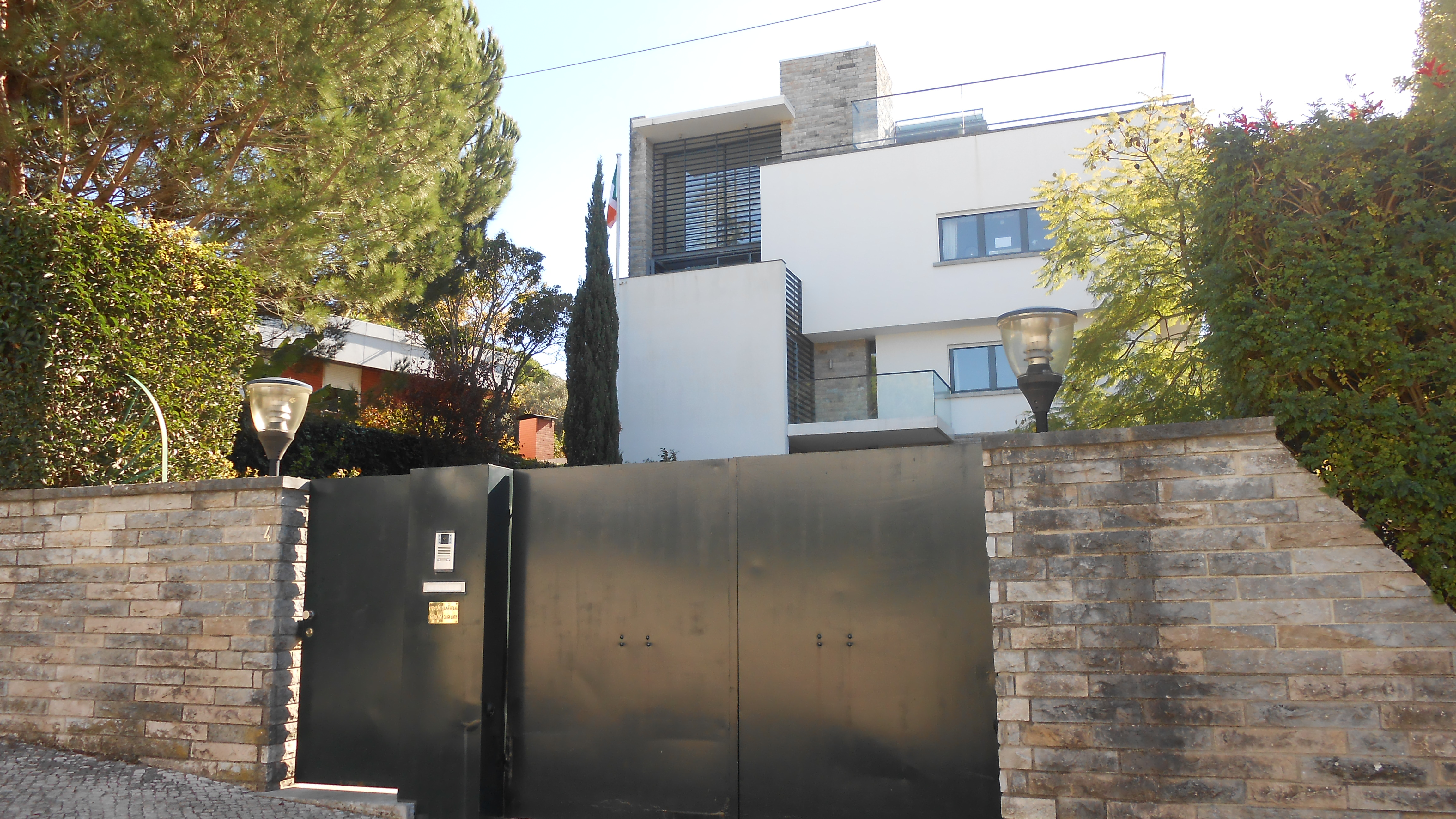 Residence of the irish ambassador in Belém, a neighbourhood of Lisbon.